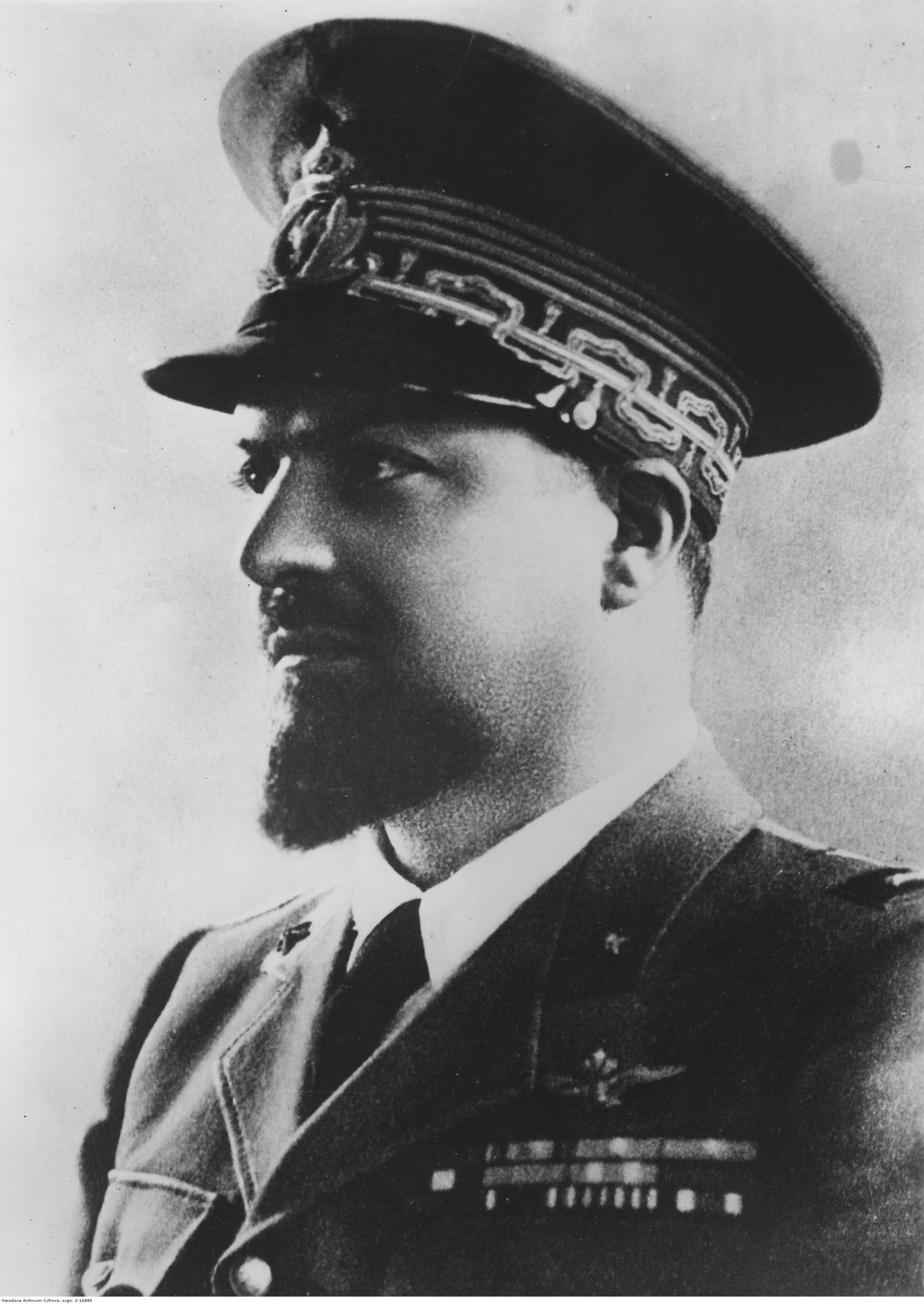 Italo Balbo, Italian marshal. Portrait photography in uniform.